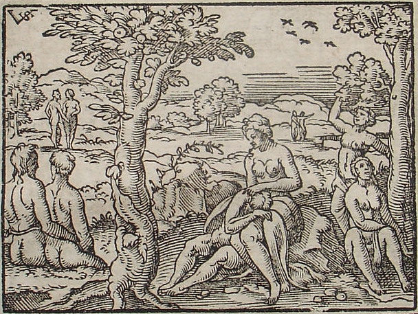 Golden Age. Engraving by Virgil Solis for Ovid's Metamorphoses Book I, 89-112. Fol. 2v, image 3.